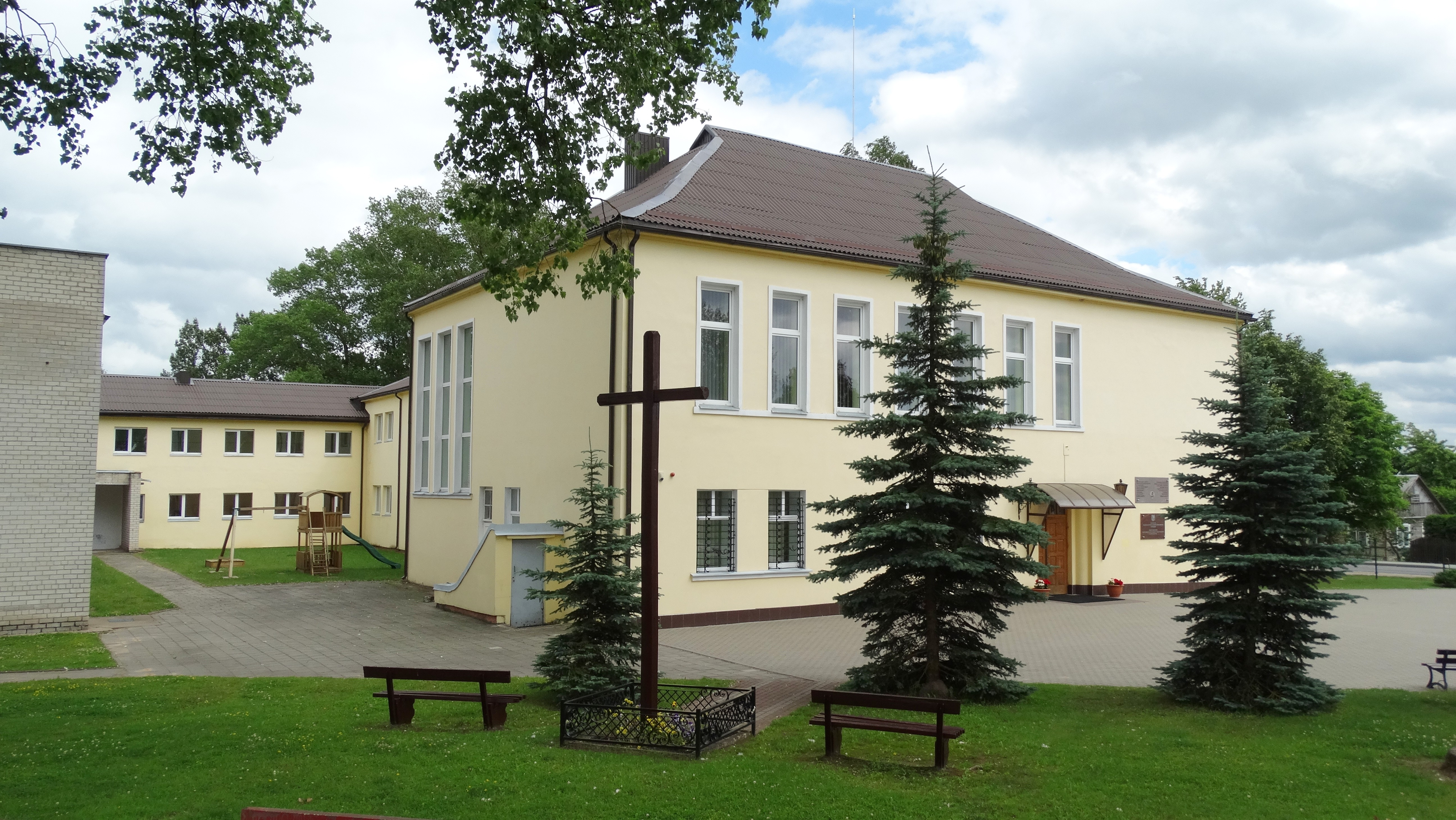 J. Obrębski Gymnasium, Maišiagala, Vilnius district, Lithuania